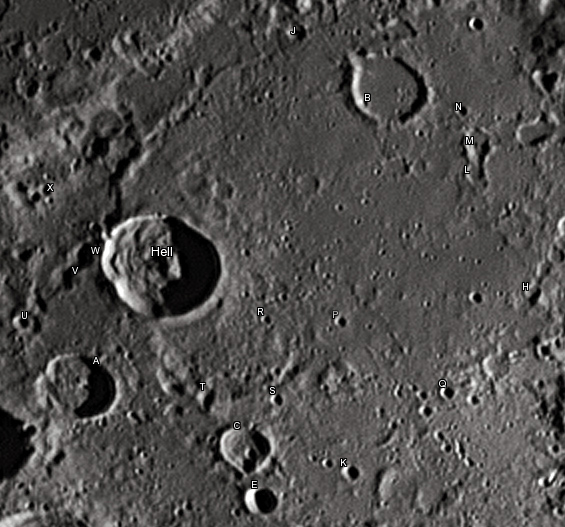 Hell lunar crater as seen from Earth with satellite craters labeled